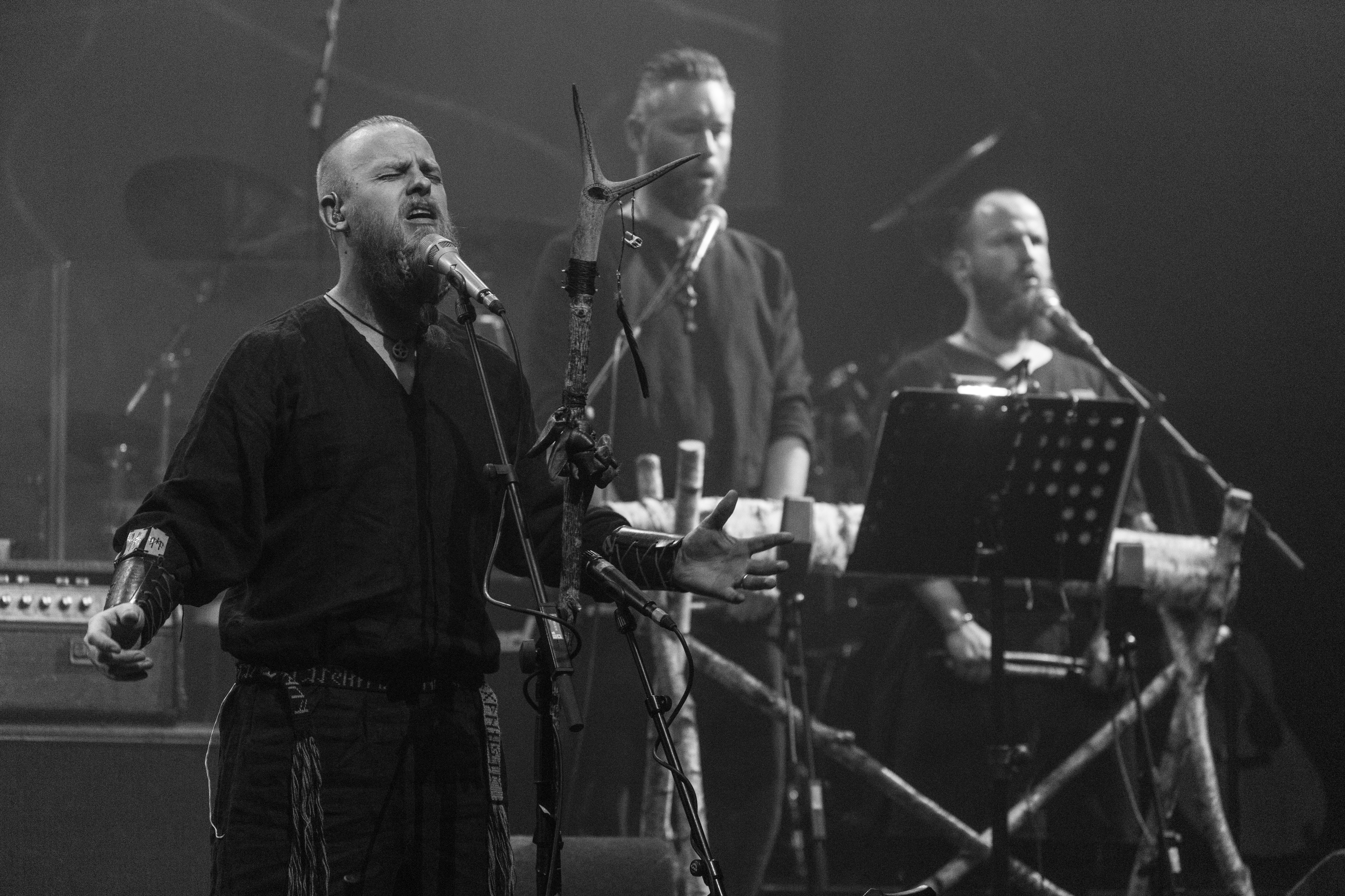 Wardruna performing at Roadburn Festival, april 2015